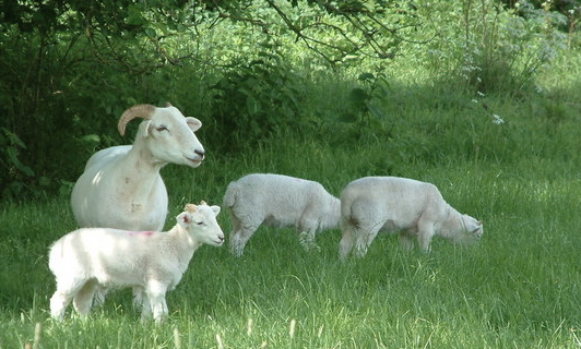 A Wiltshire Horn ewe and her triplets - this breed does not produce wool, but hair.